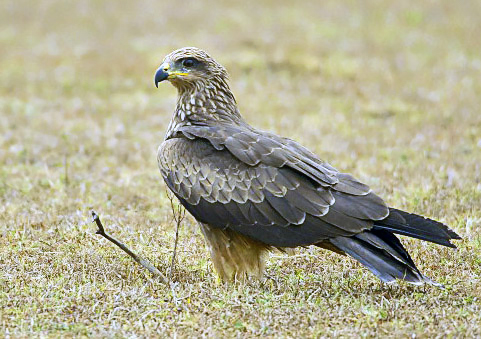 Black kite from Bangalore, India